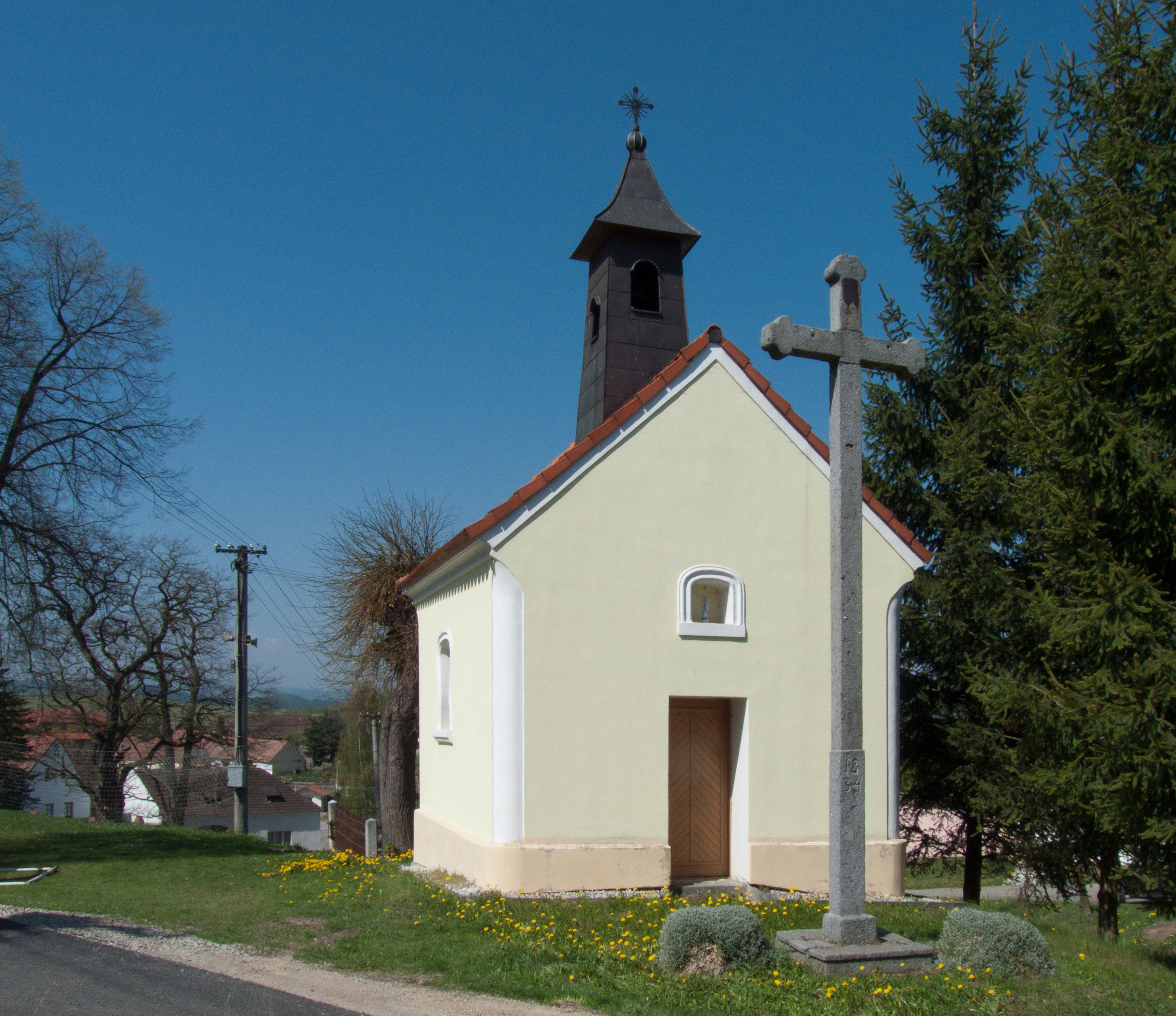 Virgin Mary Chapel in the village of Milejovice, Strakonice District, Czech Republic.